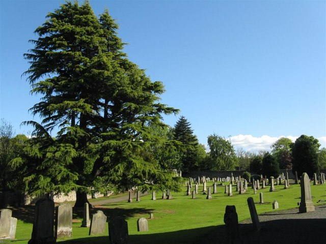 Abercorn Churchyard With many old graves and some fine trees.